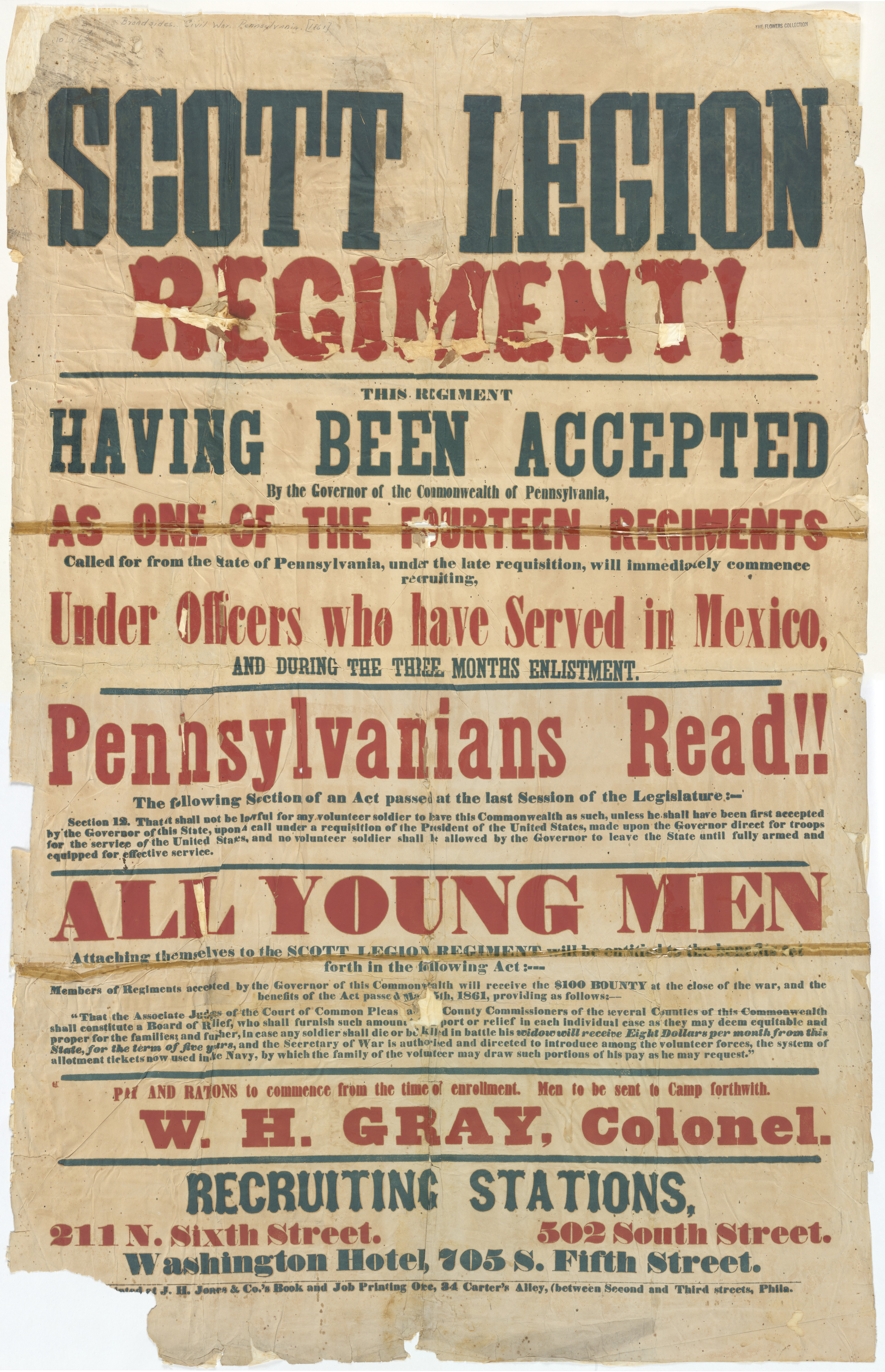 Notice of recruitment in Philadelphia, published in 1861 by the Scott Legion (20th Pennsylvania Volunteer Infantry), public domain, Duke University Libraries.